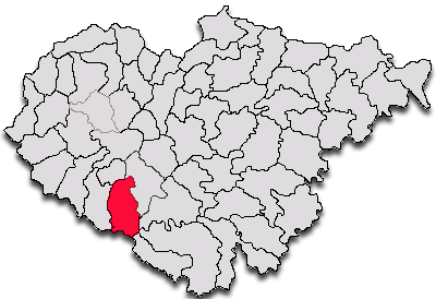 Map Salaj County Romania